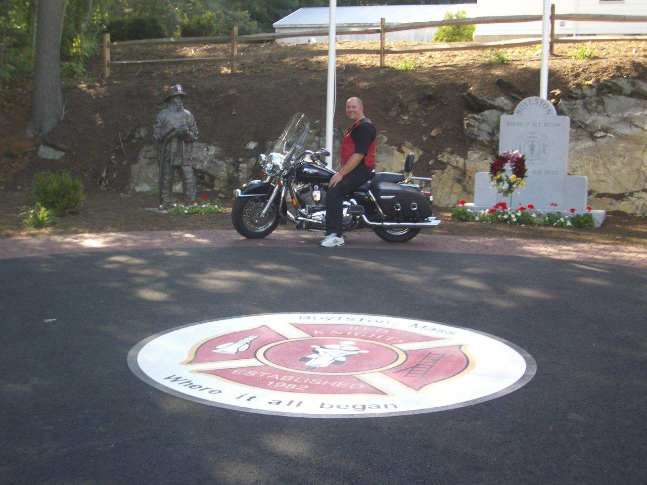 RKMC Memorial Boylston